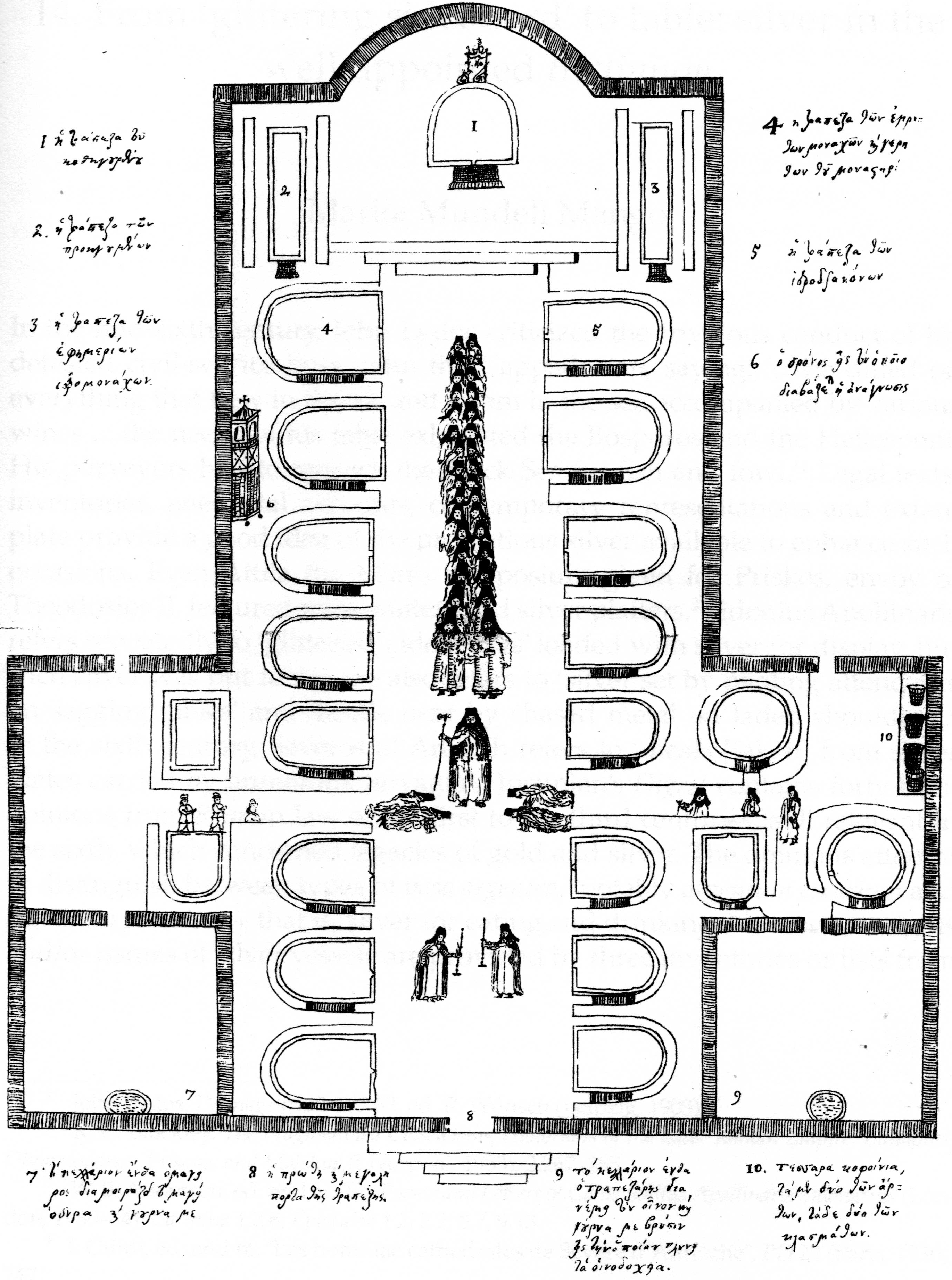 Sketch of the trapeza of the Great Lavra, Athos, by Vasilii Grigorovich-Barskii, 1744